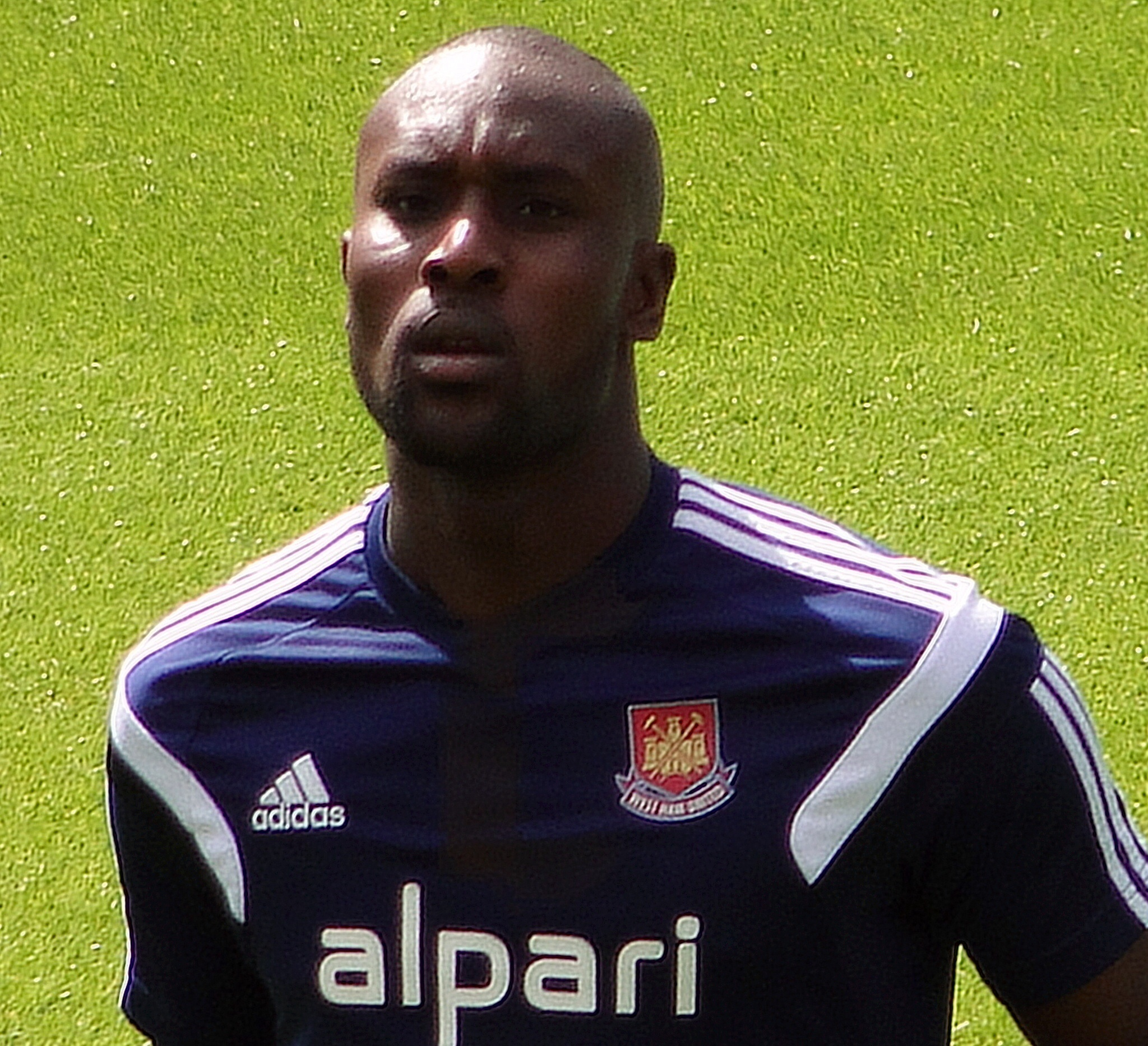 West Ham United's Carlton Cole warming up before their game against Southampton, August 2014